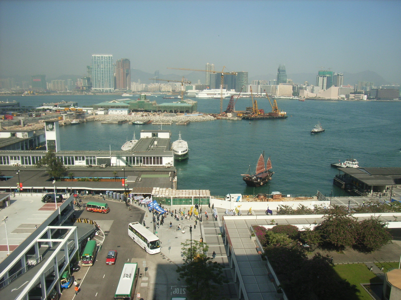 HK seaview from the 9th floor of City Hall, Central, Hong Kong